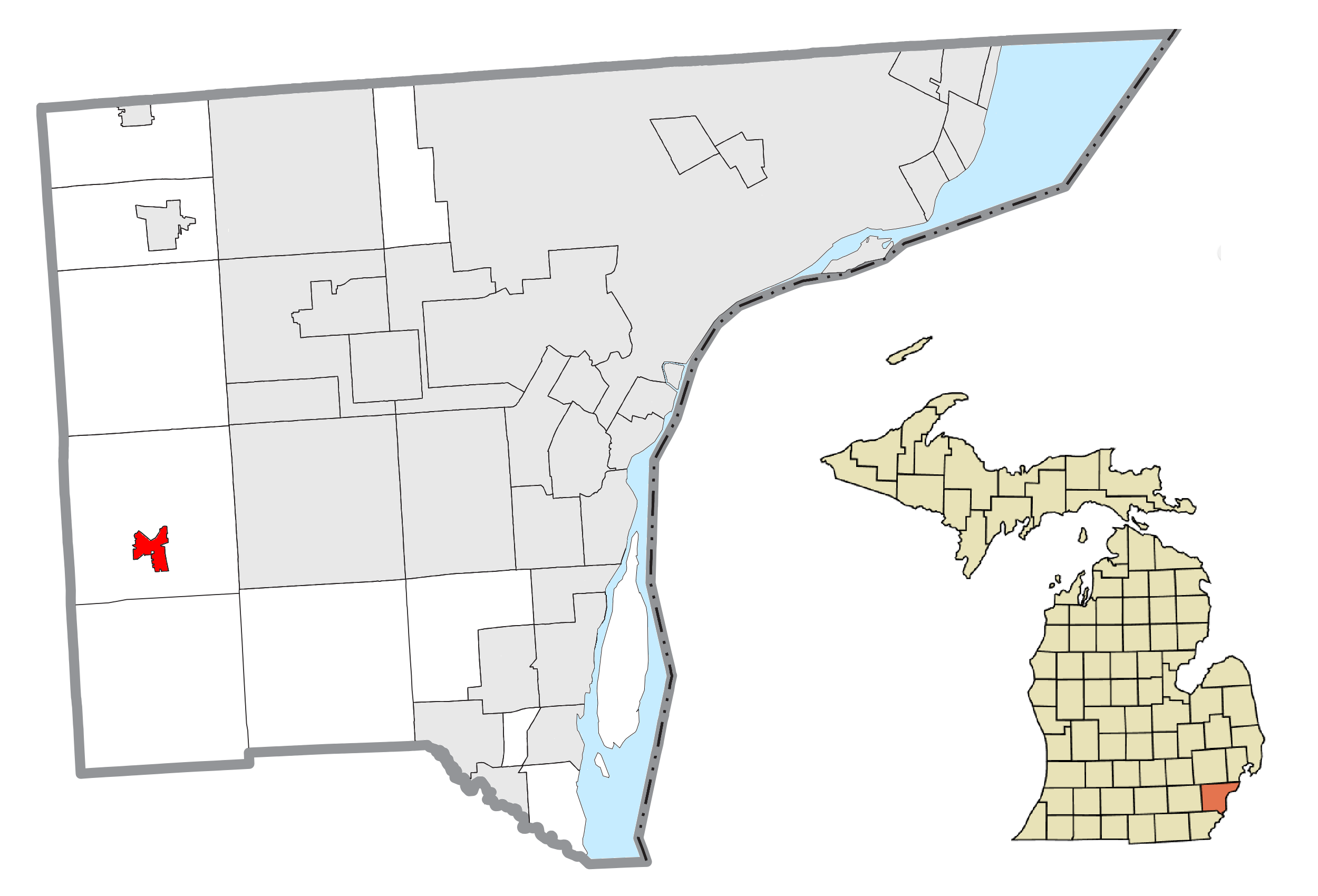 Belleville, MI